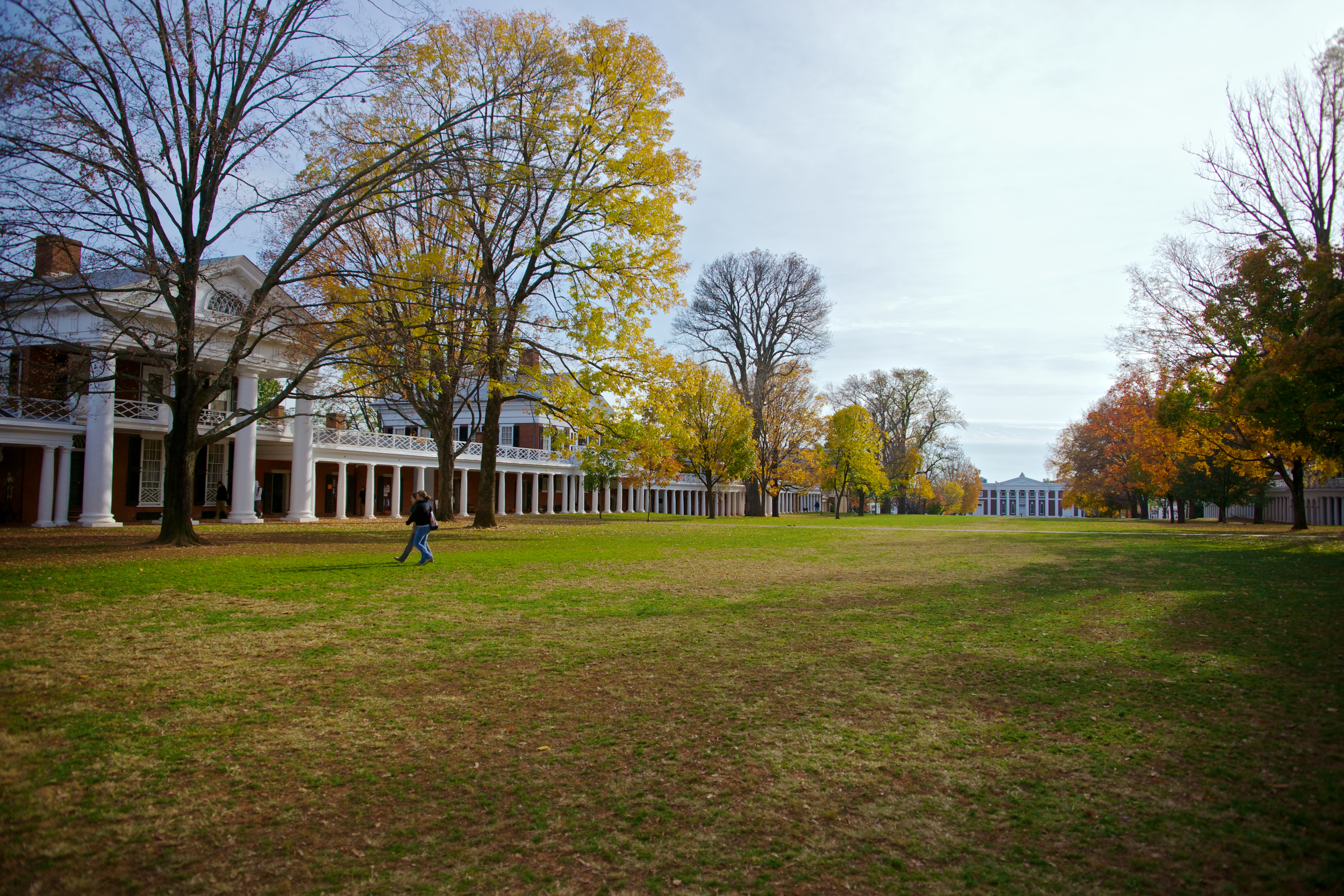 The Lawn of the University of Virginia, USA, looking south onto Old Cabell Hall